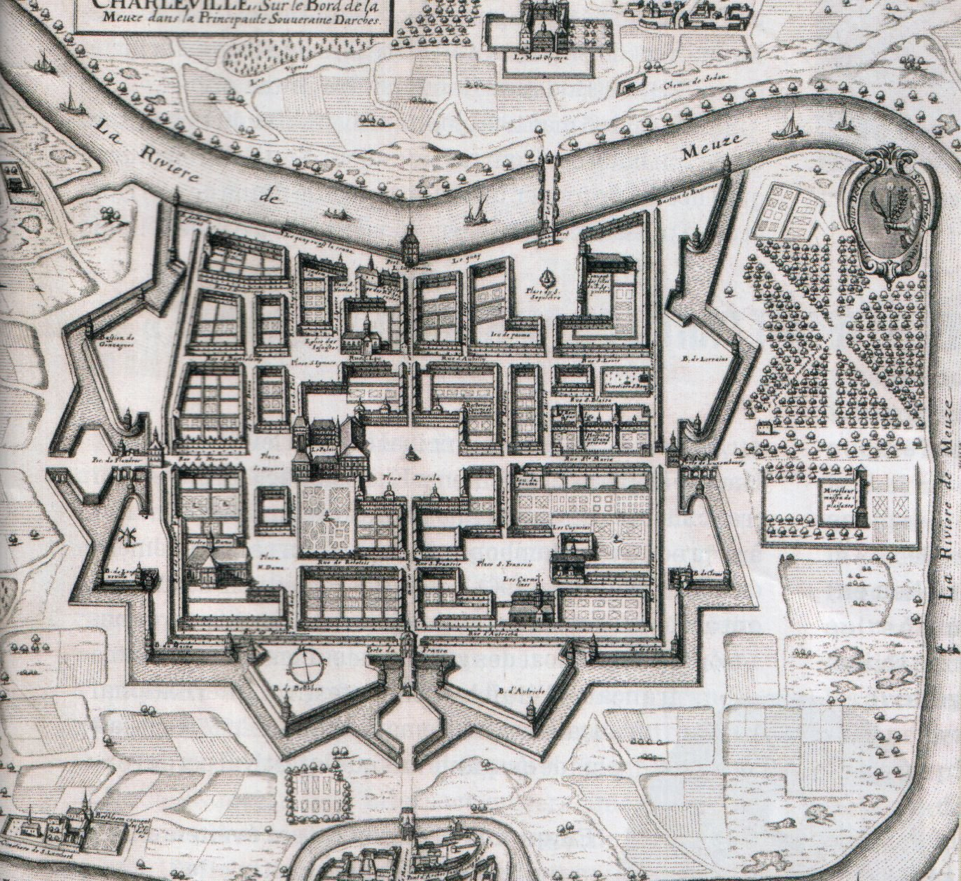 Map of Charleville* by Edmé Moreau about 1625.